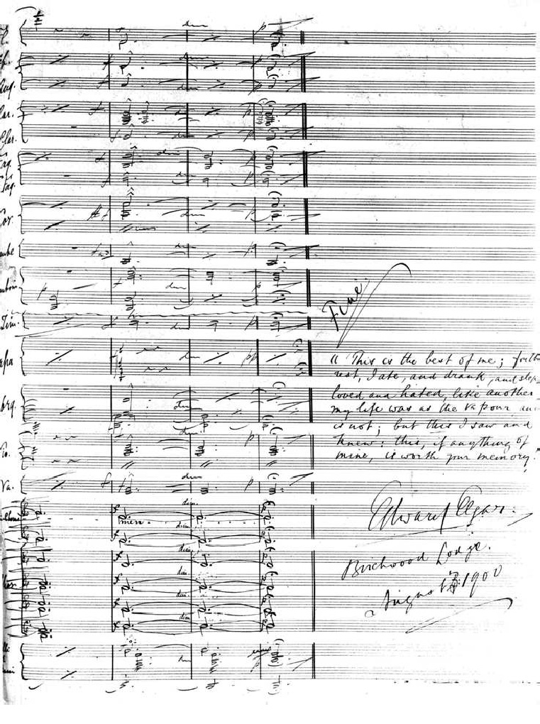 In August 1900 Elgar added this quotation from John Ruskin’s Sesame and Lilies to the manuscript score of The Dream of Gerontius: "This is the best of me; for the rest, I ate, and drank, and slept, loved and hated, like another; my life was as the vapour and is not; but this I saw and knew: this, if anything of mine, is worth your memory".